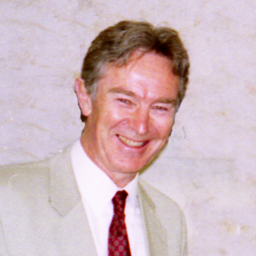 Christopher Ravenscroft at a local function in London.